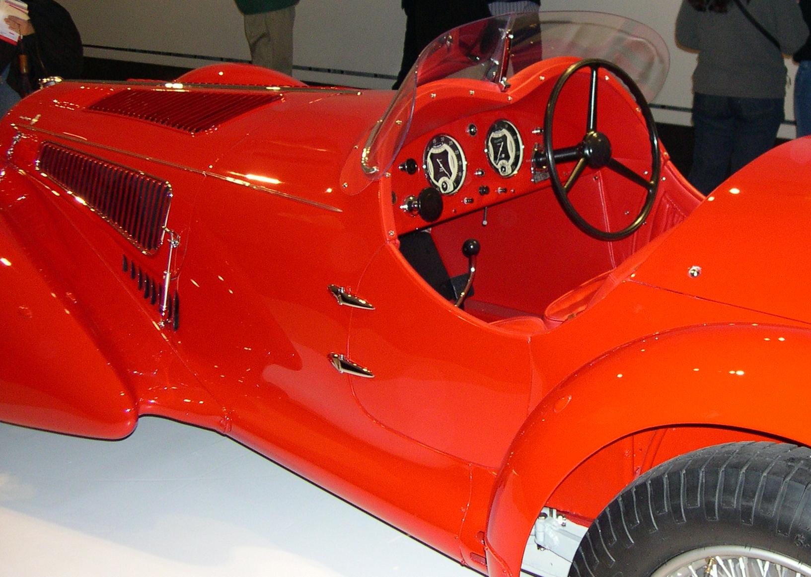 1938 Alfa Romeo 8C 2900 Mille Miglia From the Ralph Lauren collection on display at the Boston Museum of Fine Arts. Photo taken in 2005.